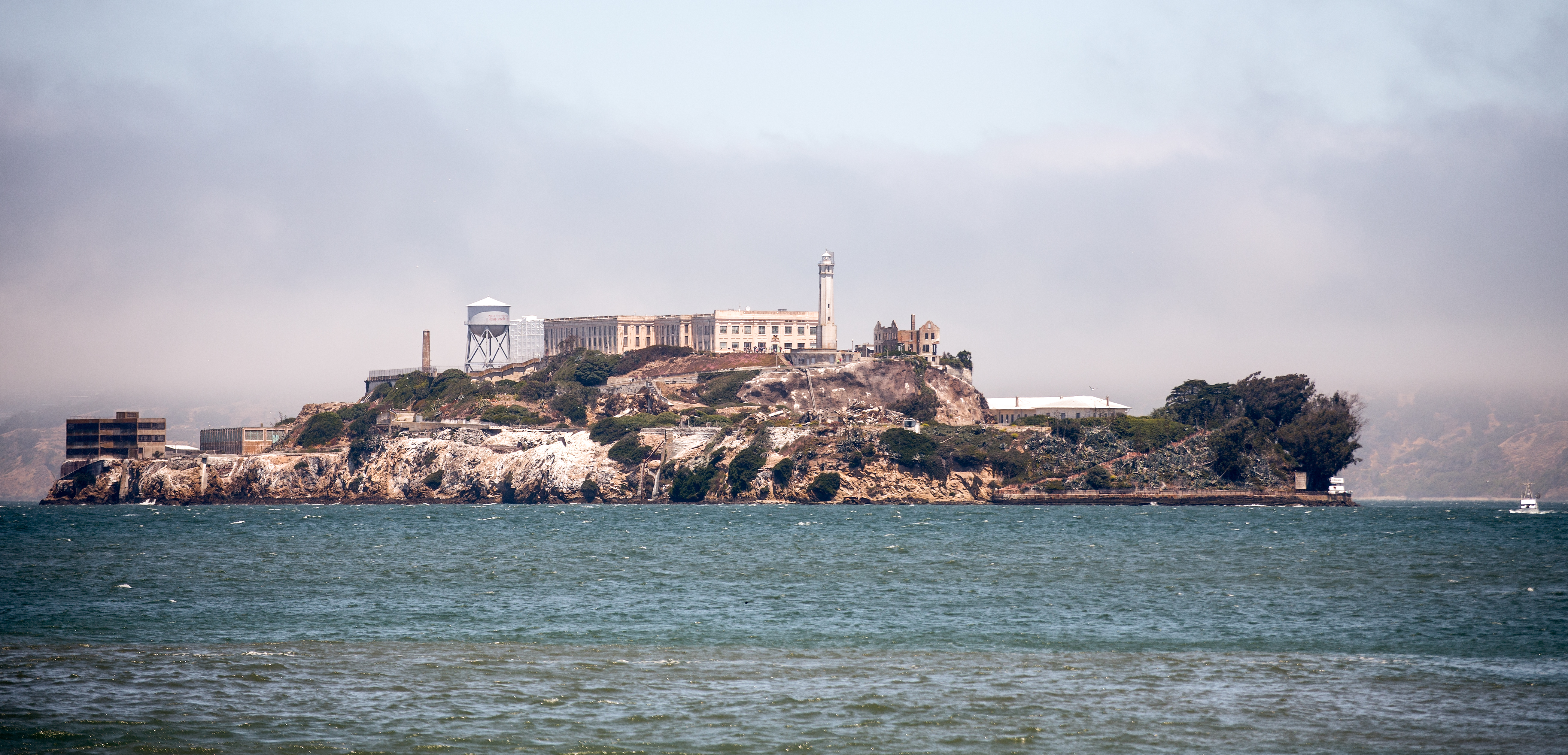 Alcatraz from Fisherman's Wharf